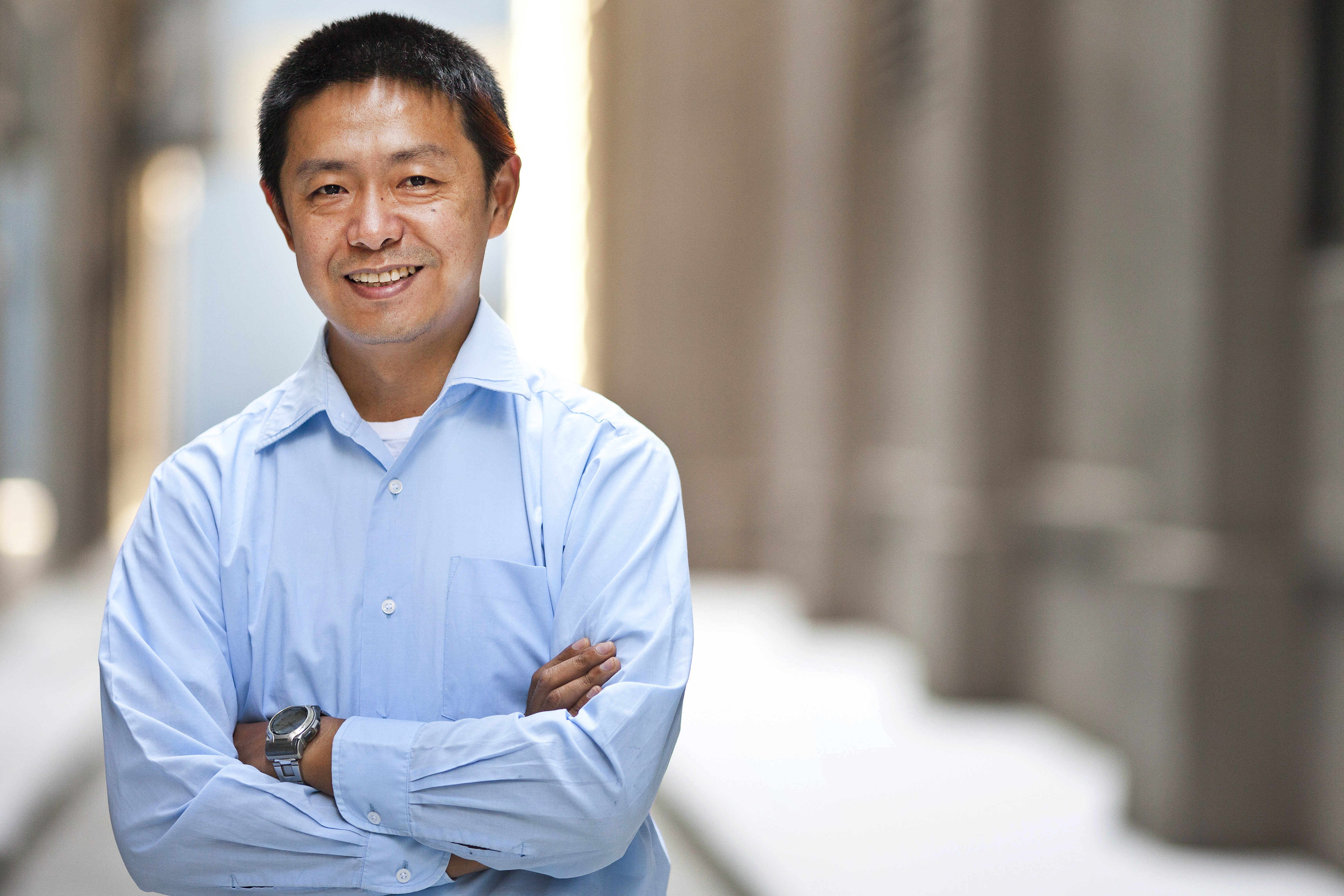 Portrait of Wikimedia Foundation Board member Ting Chen